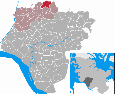 This map shows the area of the municipality Puls in the Kreis (district) Steinburg, Schleswig-Holstein, Germany.